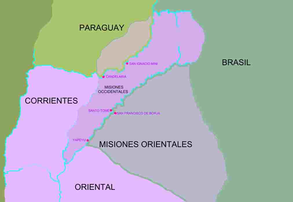 MAPA DE LAS MISIONES OCCIDENTALES, CON EL LIMITE CON CORRIENTES EN LOS ESTEROS DEL IBERÁ, ASI COMO CIUDADES TEATRO DE OPERACIONES DE ANDRESITO ARTIGAS